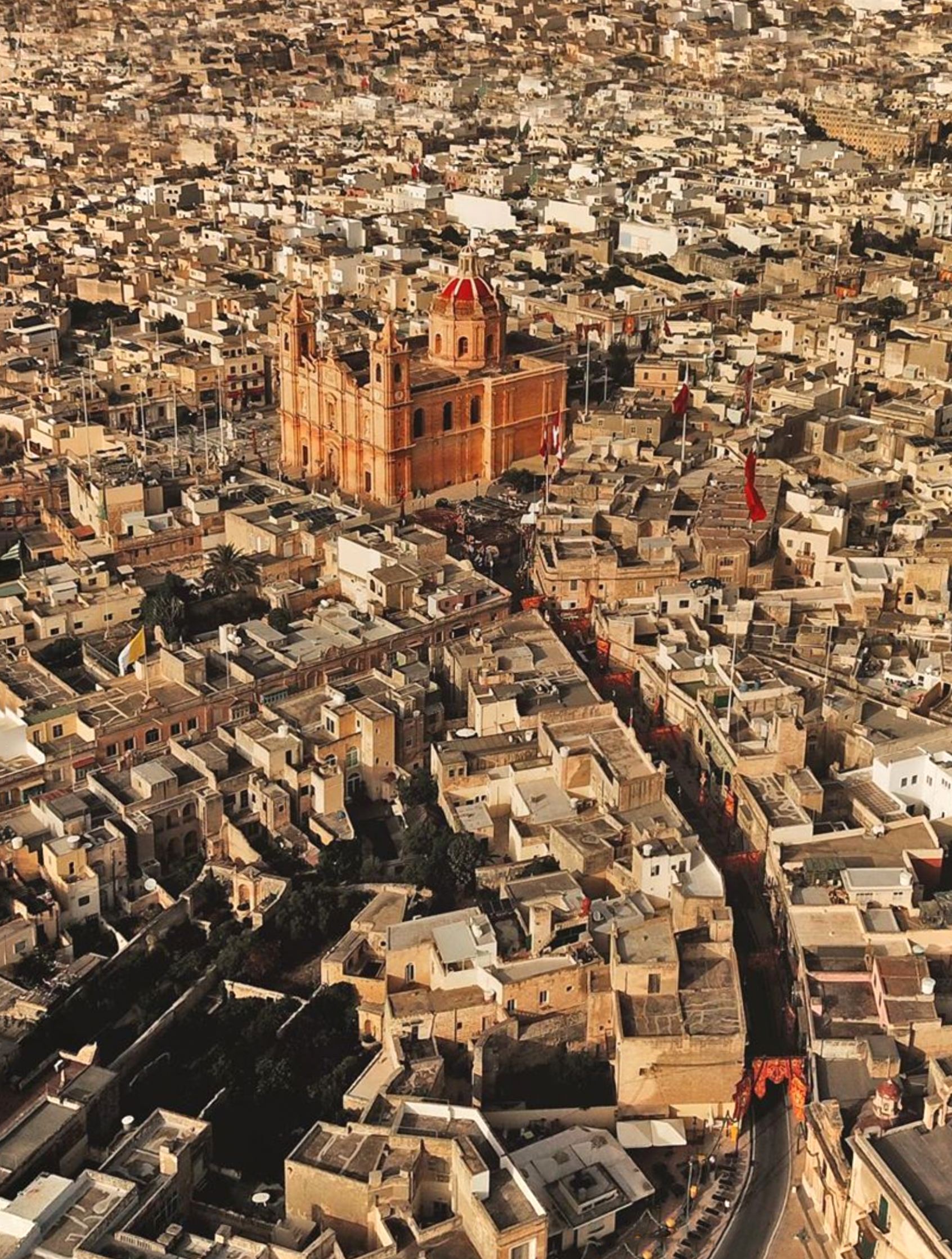 Aerial view of the town of Zejtun, Malta.